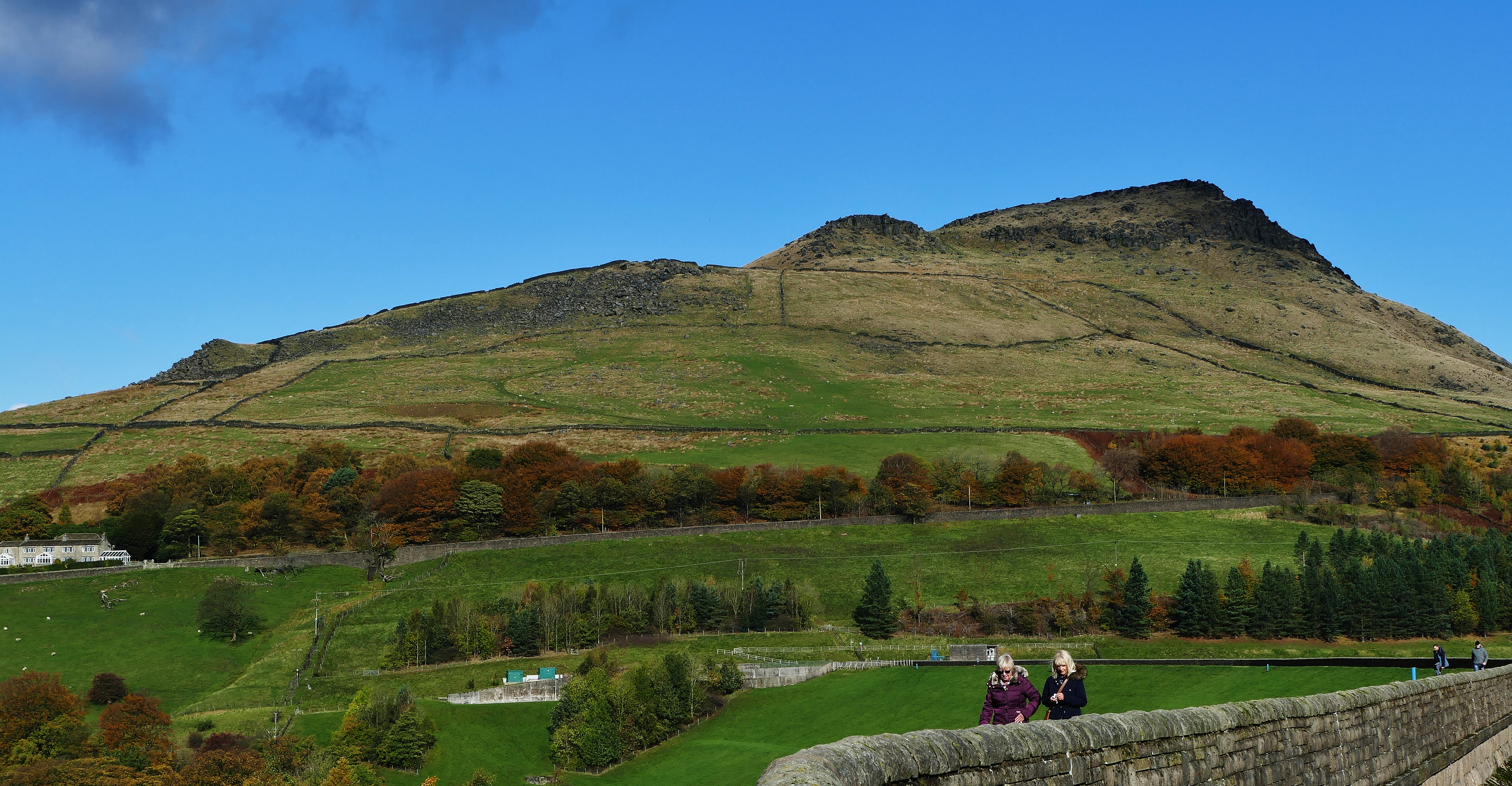 Hills above Dovestone